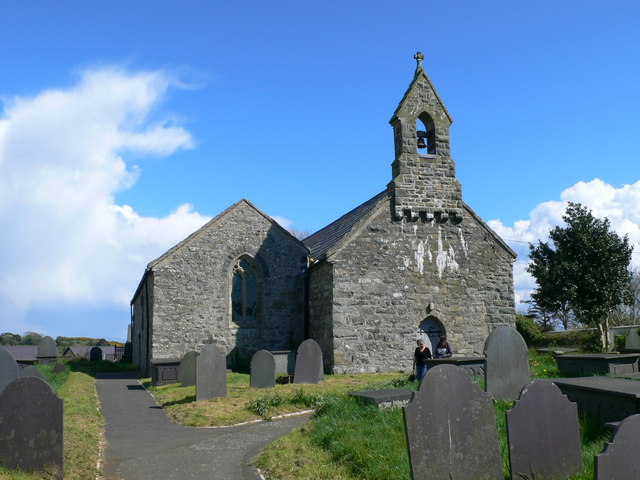 Eglwys Cawrdaf Sant, Abererch